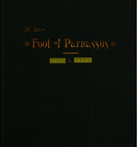 book cover: "At the Foot of Parnassus", 1883, by Emily Sullivan Oakey